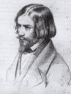 Otto Ludwig, image taken from German Wikipedia.